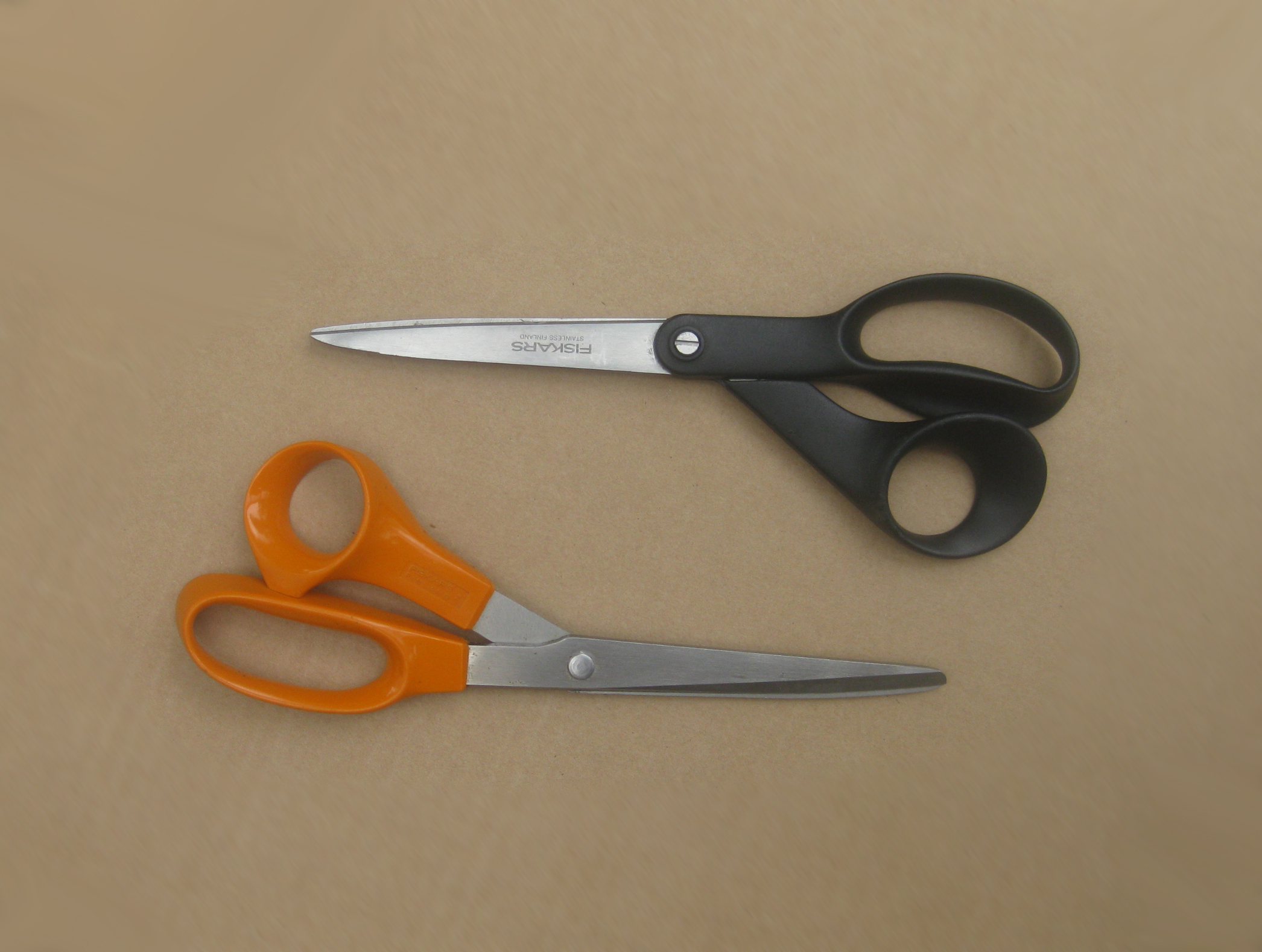 Two generation of scissors made by Fiskars